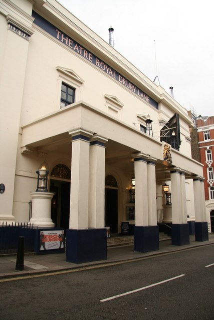 Theatre Royal Drury Lane London's oldest theatre, dating back to 1663, this is the fourth building from 1812 by Benjamin Dean Wyatt. It is owned by Andrew Lloyd Webber and is a popular venue for musicals.